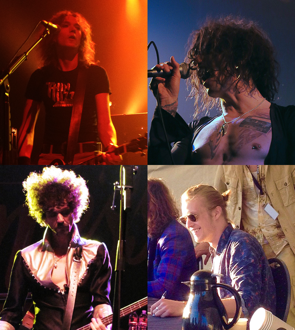 British rock group The Darkness. Dan Hawkins, Justin Hawkins, Frankie Poullain and Rufus Tiger Taylor.